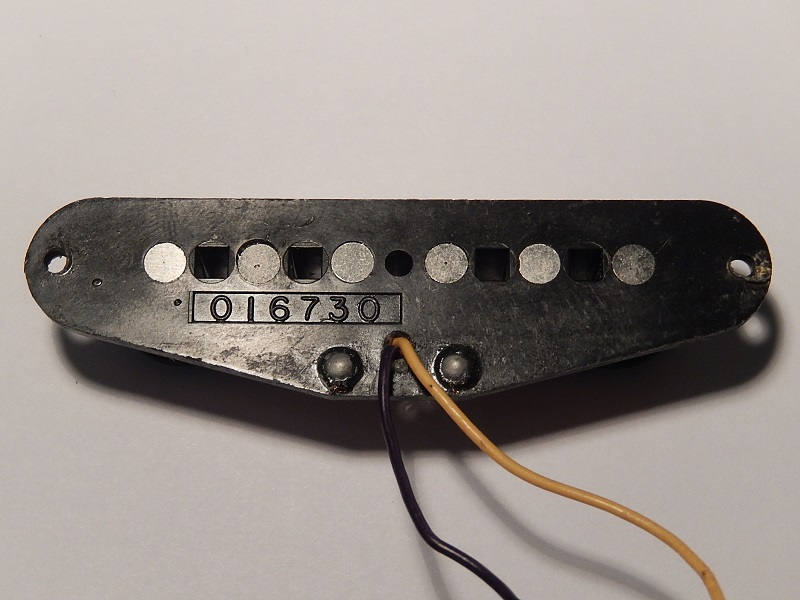 Fender Lead II X1 single coil plastic bobbin part #016730